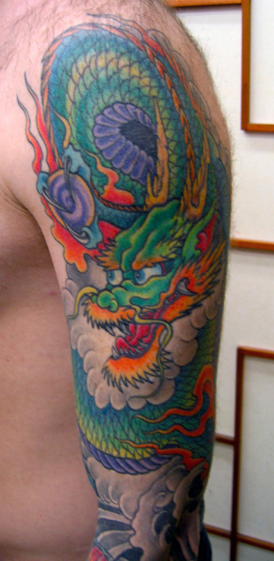 Custom Japanese dragon tattoo by Greg James